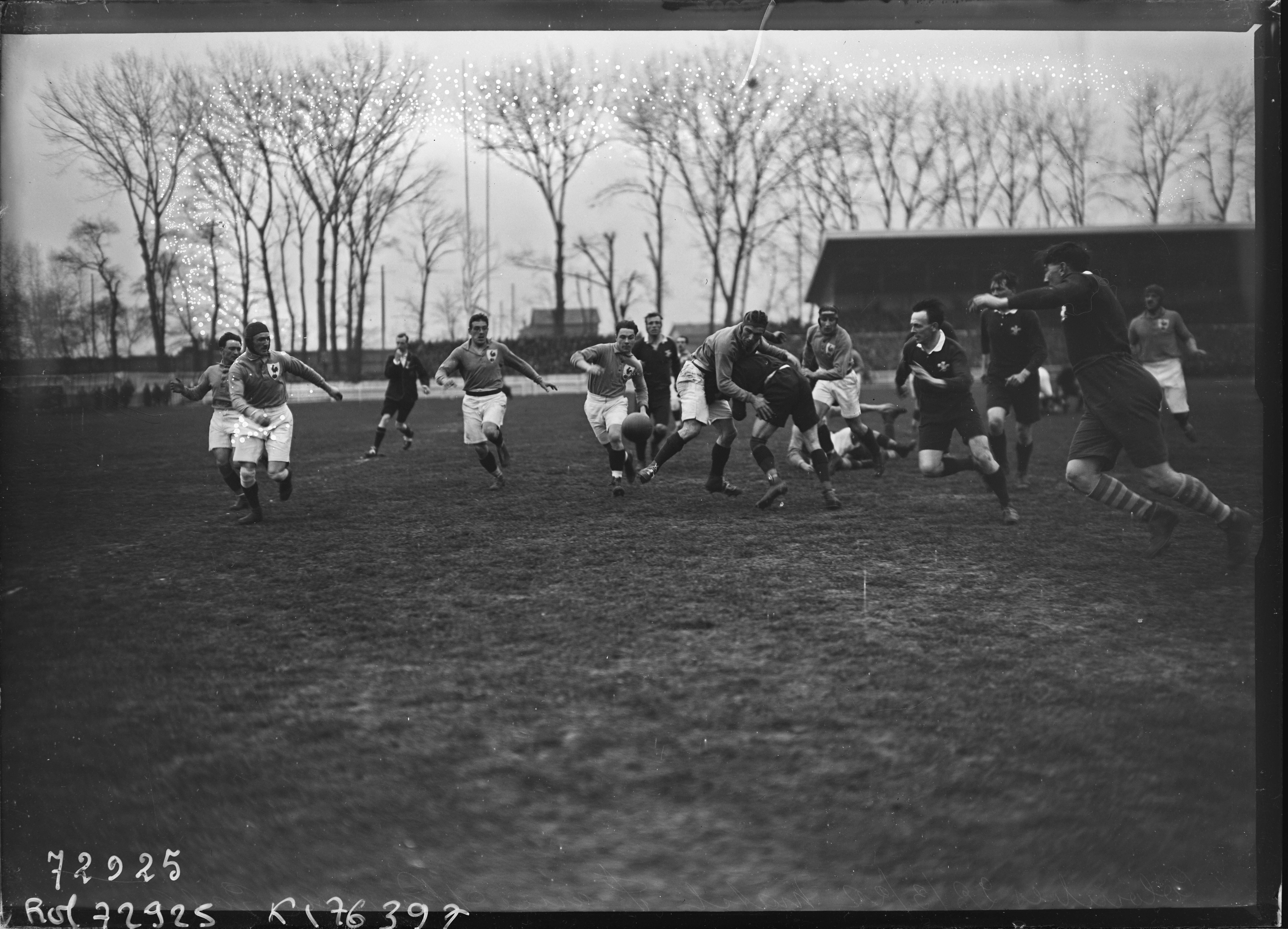 France (in light colours) playing Wales (in dark colours) in international rugby union. At Stade Colombes, Paris, in the 1922 Five Nations Championship.